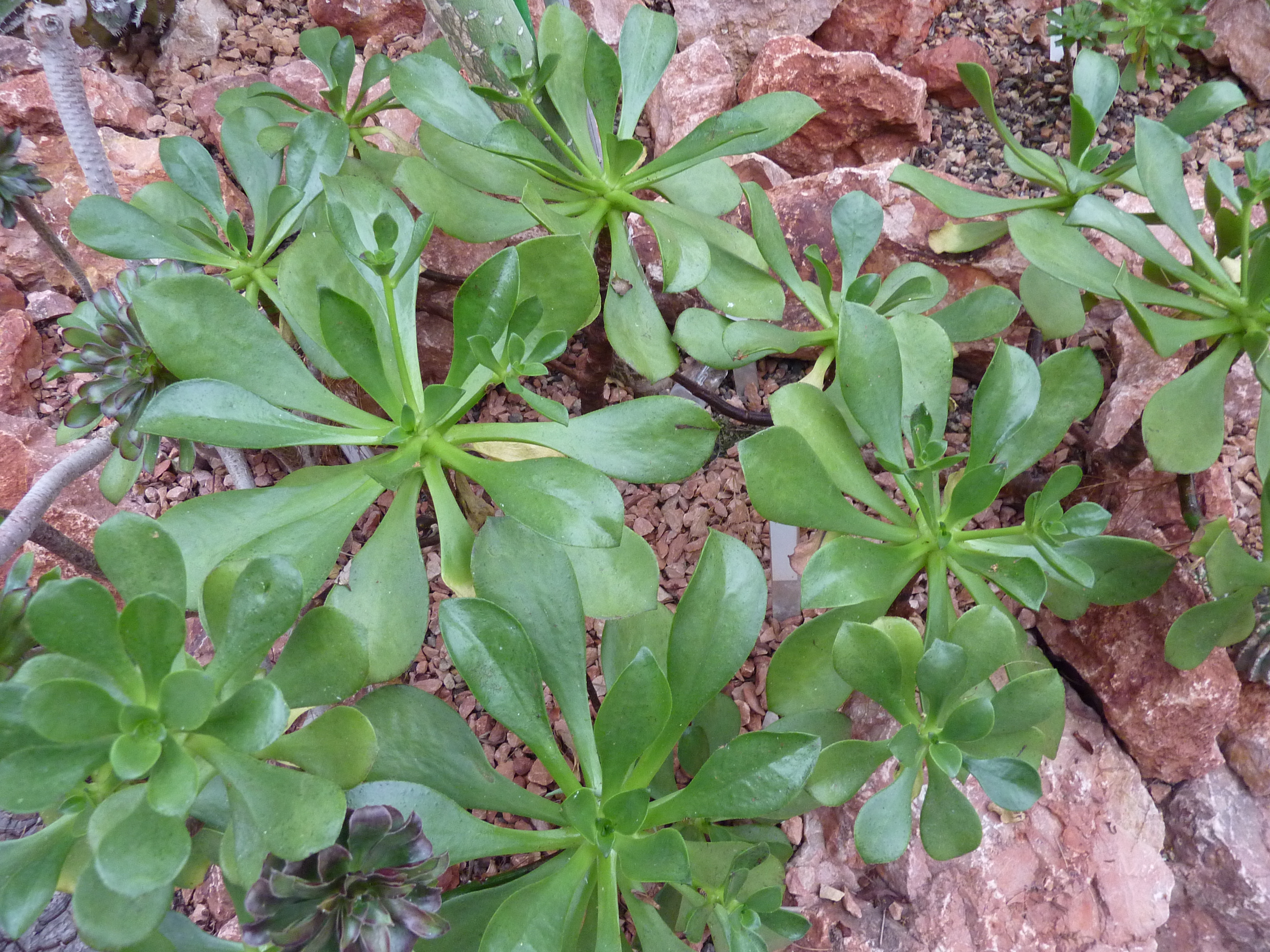 Aeonium glutinosum in the Sukkulentensammlung Zürich